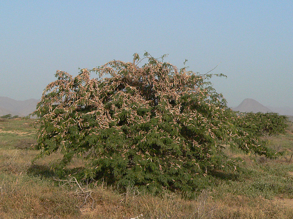 Part of settled swarm of Schistocerca gregaria photographed near Aeterba, Red Sea coast, Sudan